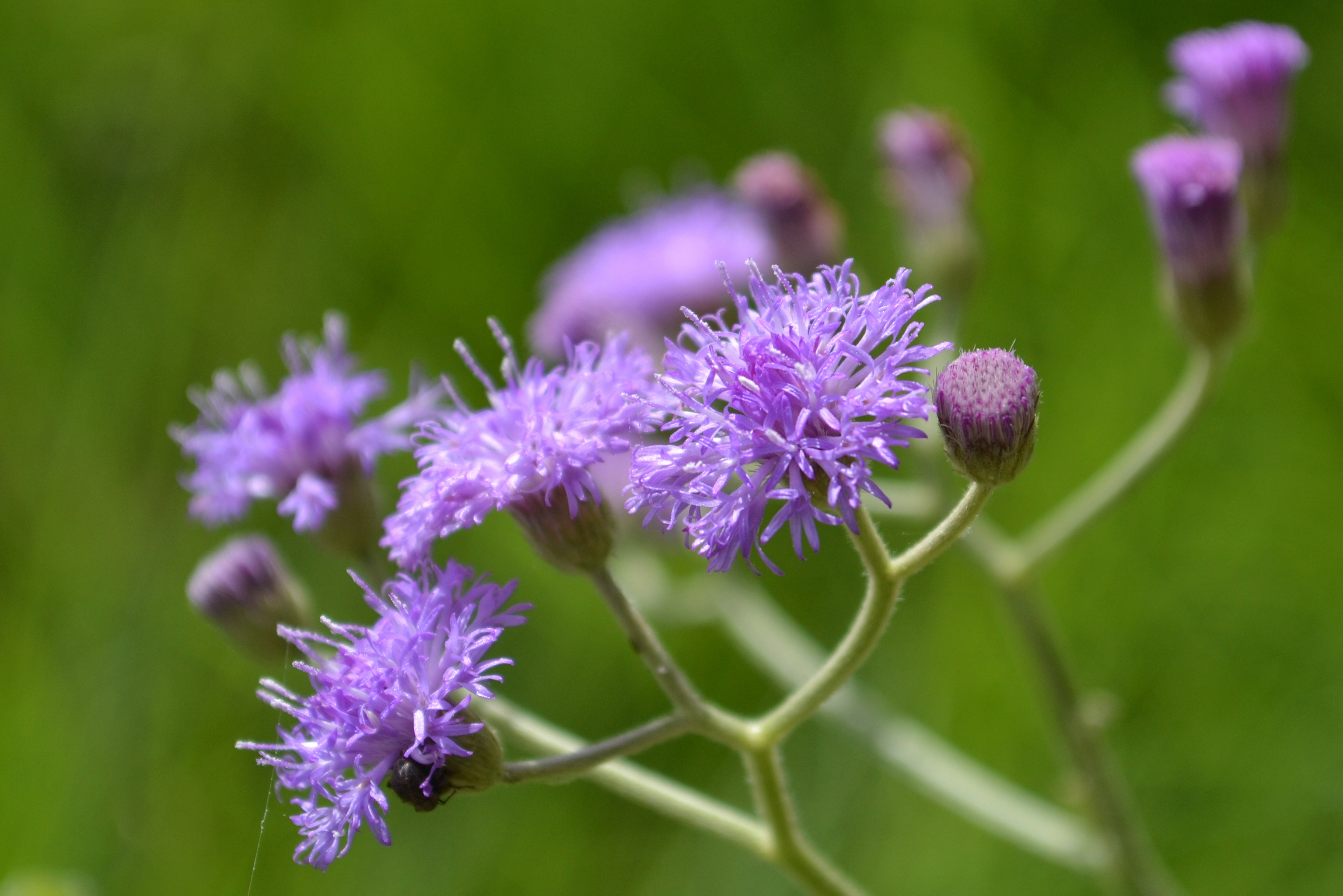 Sanskrit: Sahadevi